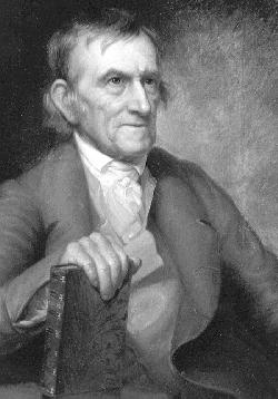 Henry Wynkoop, Congressman from Pennsylvania